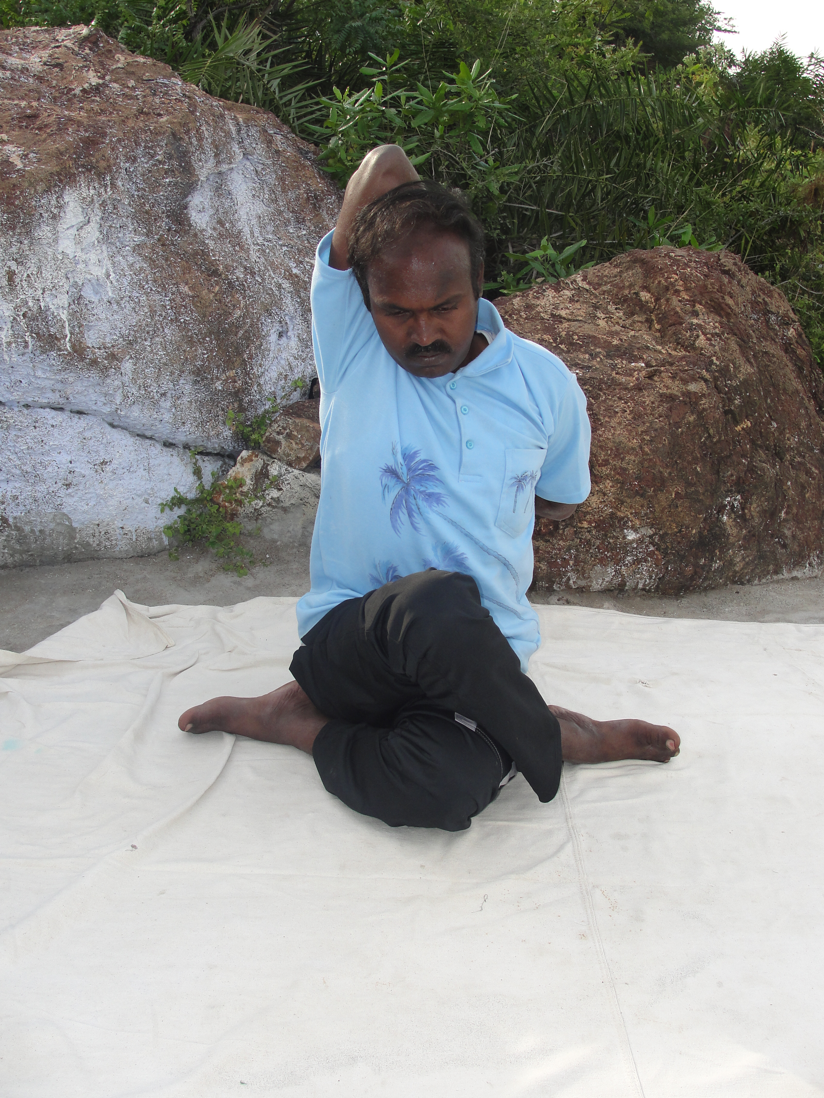 A style of Gomukhasana